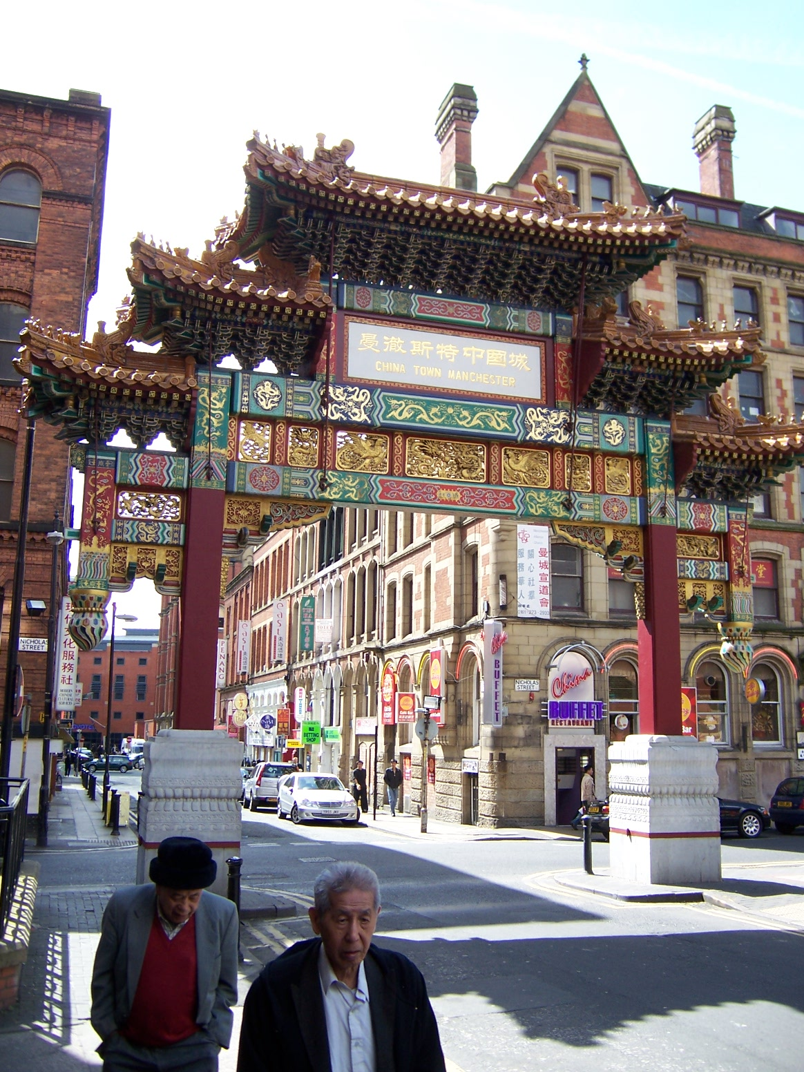 Chinatown in Manchester, England own work; photo taken on 28 April 2006